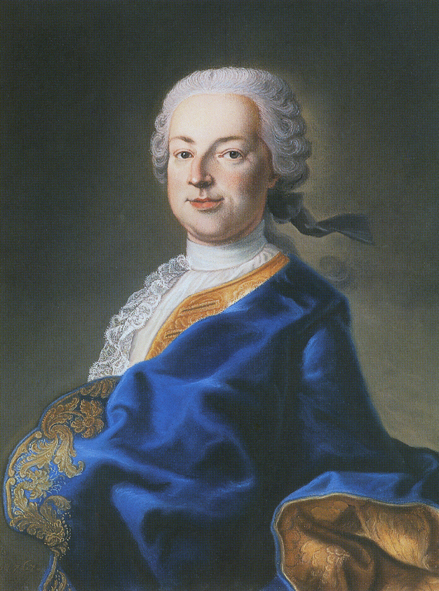 Hermann Post (1693–1762), jurist and archivist from Bremen